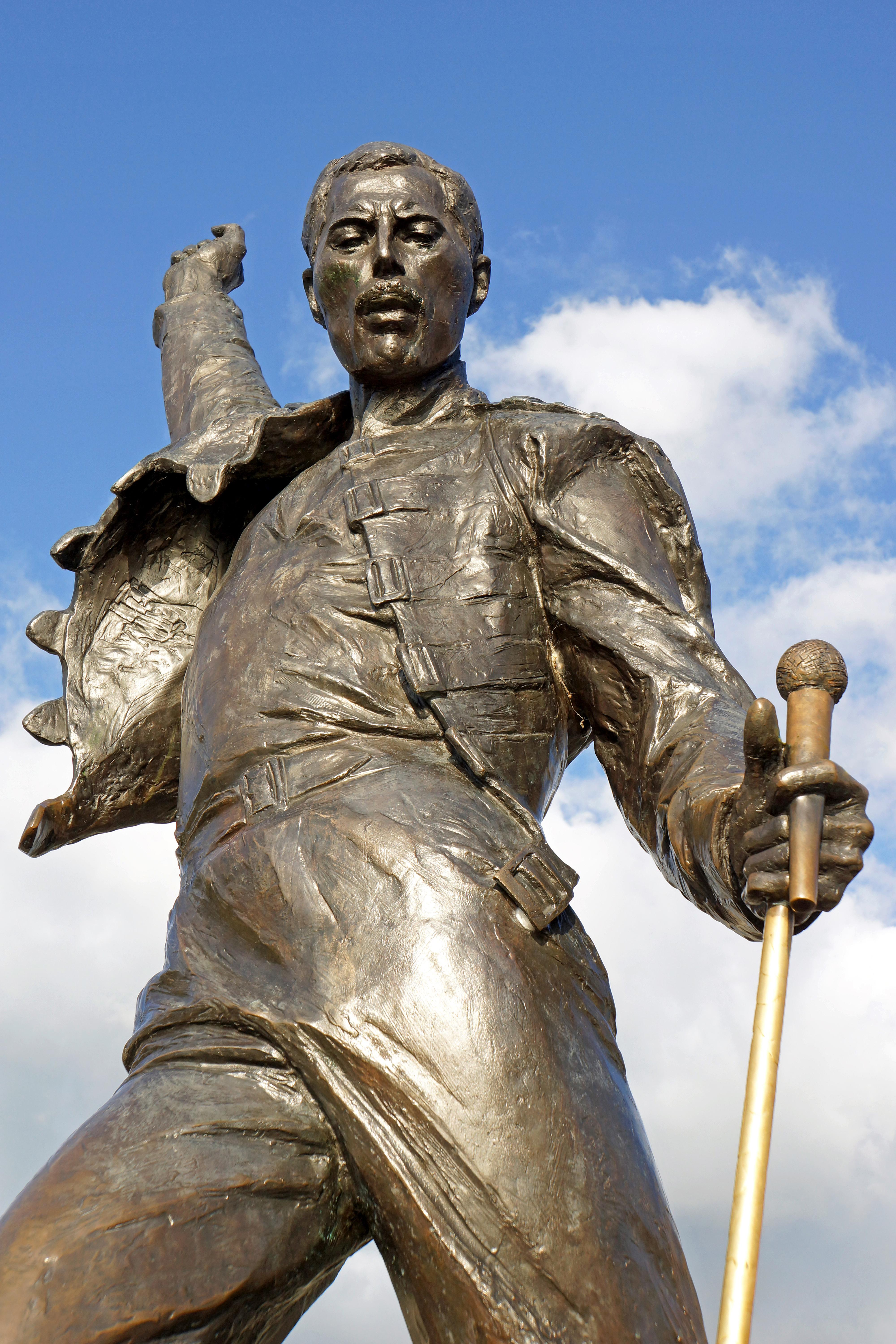 PLEASE, NO invitations or self promotions, THEY WILL BE DELETED. My photos are FREE to use, just give me credit and it would be nice if you let me know, thanks. Freddie Mercury (5 September 1946 – 24 November 1991) was a British singer, songwriter and producer, best known as the lead vocalist and lyricist of the rock band Queen. As a member of Queen, he was inducted into the Rock and Roll Hall of Fame in 2001, the Songwriters Hall of Fame in 2003, the UK Music Hall of Fame in 2004, and the band received a star on the Hollywood Walk of Fame in 2002. The statue stands almost 10 feet (3 metres) high overlooking Lake Geneva.